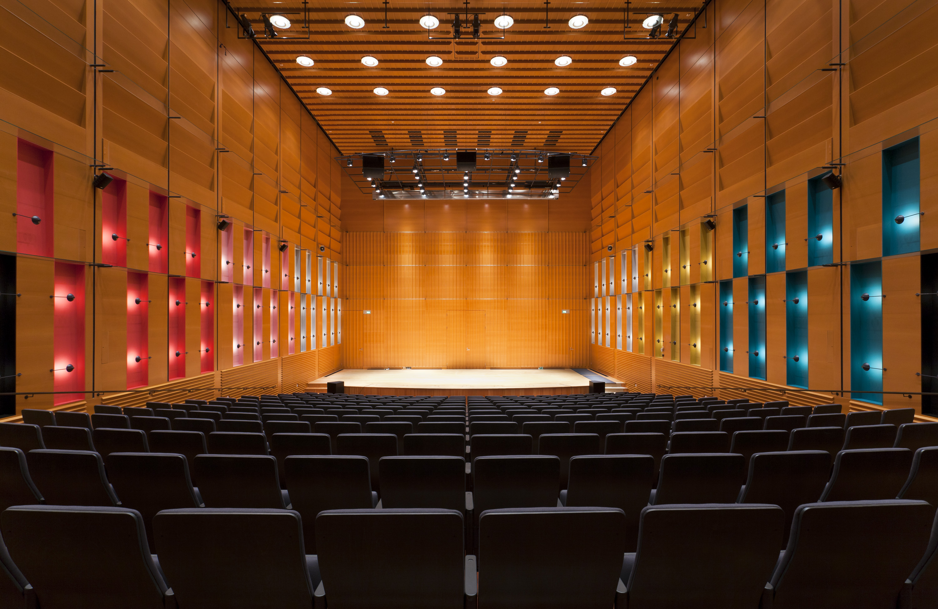 Culture house Korundi Rovaniemi Finland